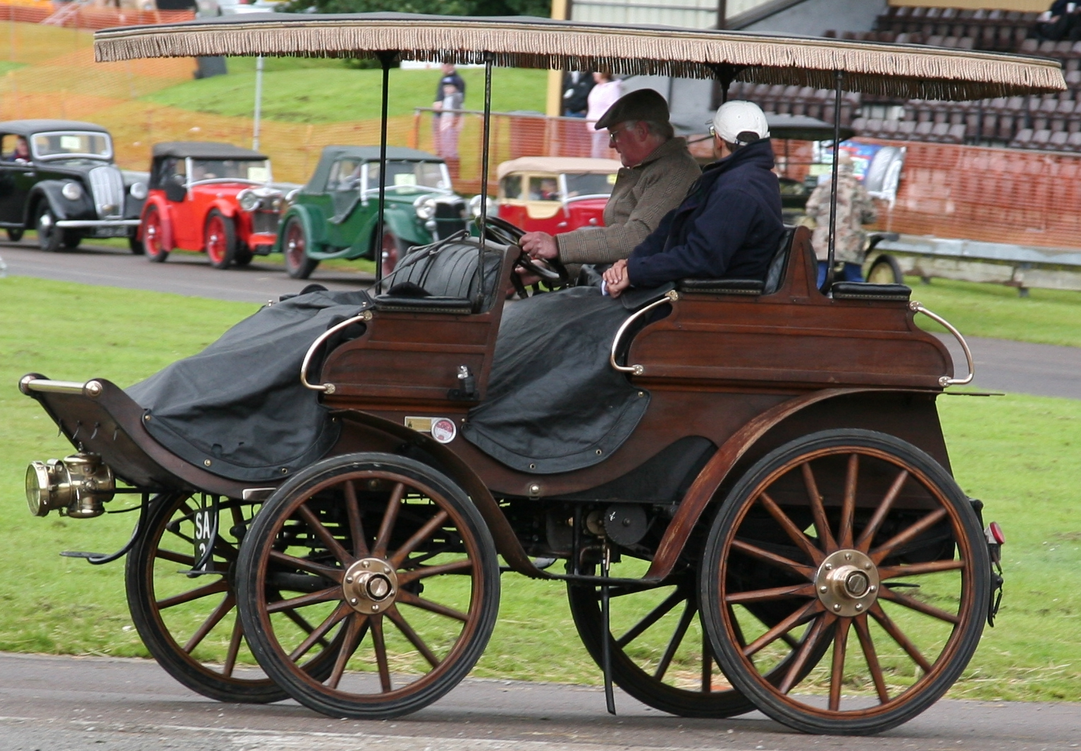 Arrol-Johnston Dog Cart 1902 Seen at Grampian Transport Museum, Alford, July 2007 "Motorvation" event.